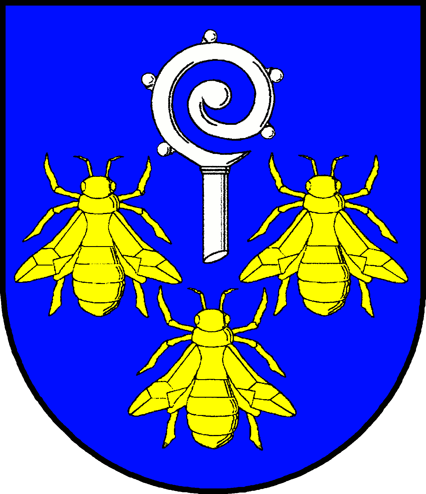 Coat of arms of the municipality Honigsee in Schleswig-Holstein, Germany.